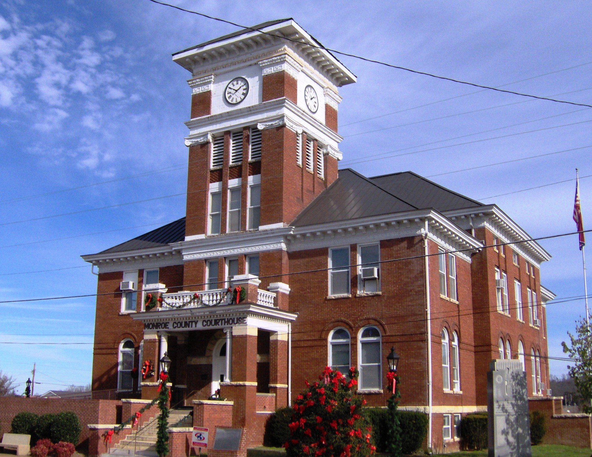 The Monroe County Courthouse in Madisonville, Tennessee, located in the Southeastern United States. The courthouse was built in 1897, and placed on the National Register of Historic Places in 1995.